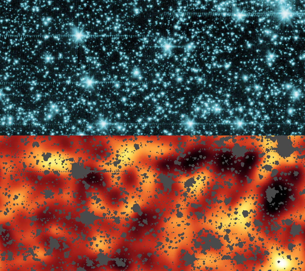 Fiery First Stars - The top panel is an image from NASA's Spitzer Space Telescope of stars and galaxies in the constellation Draco, covering about 50 by 100 million light-years (6 to 12 arcminutes). This is an infrared image showing wavelengths of 3.6 microns, below what the human eye can detect. The bottom panel is the resulting image after all the stars, galaxies and artifacts were masked out. The remaining background has been enhanced to reveal a glow that is not attributed to galaxies or stars. This might be the glow of the first stars in the universe.